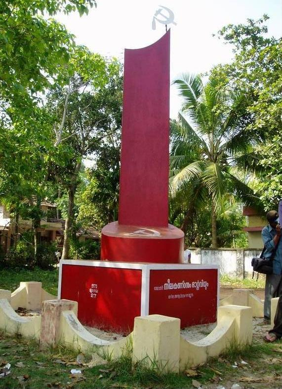 Martyrs Column in Haripaad, Kerala, for people who were killed during land rights agitations. Photo: Soman